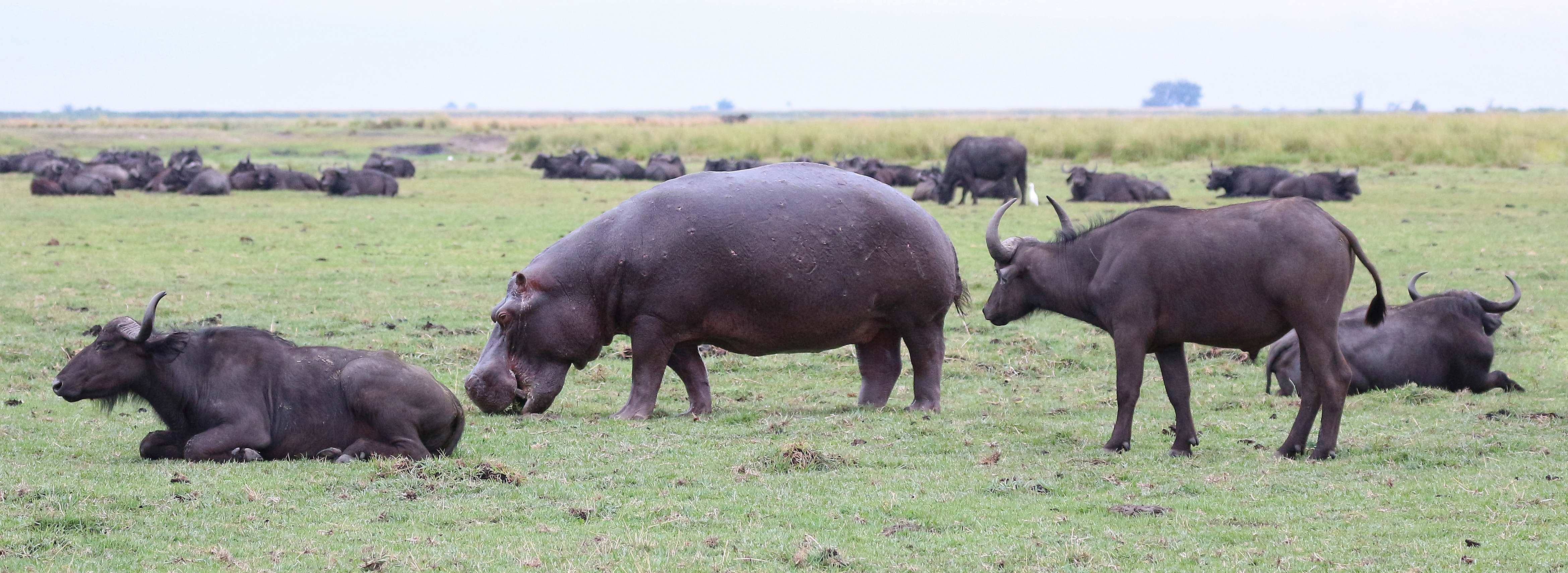 Hippopotamus (Hippopotamus amphibius) and african buffalos (Syncerus caffer caffer) in Chobe National Park, Botswana